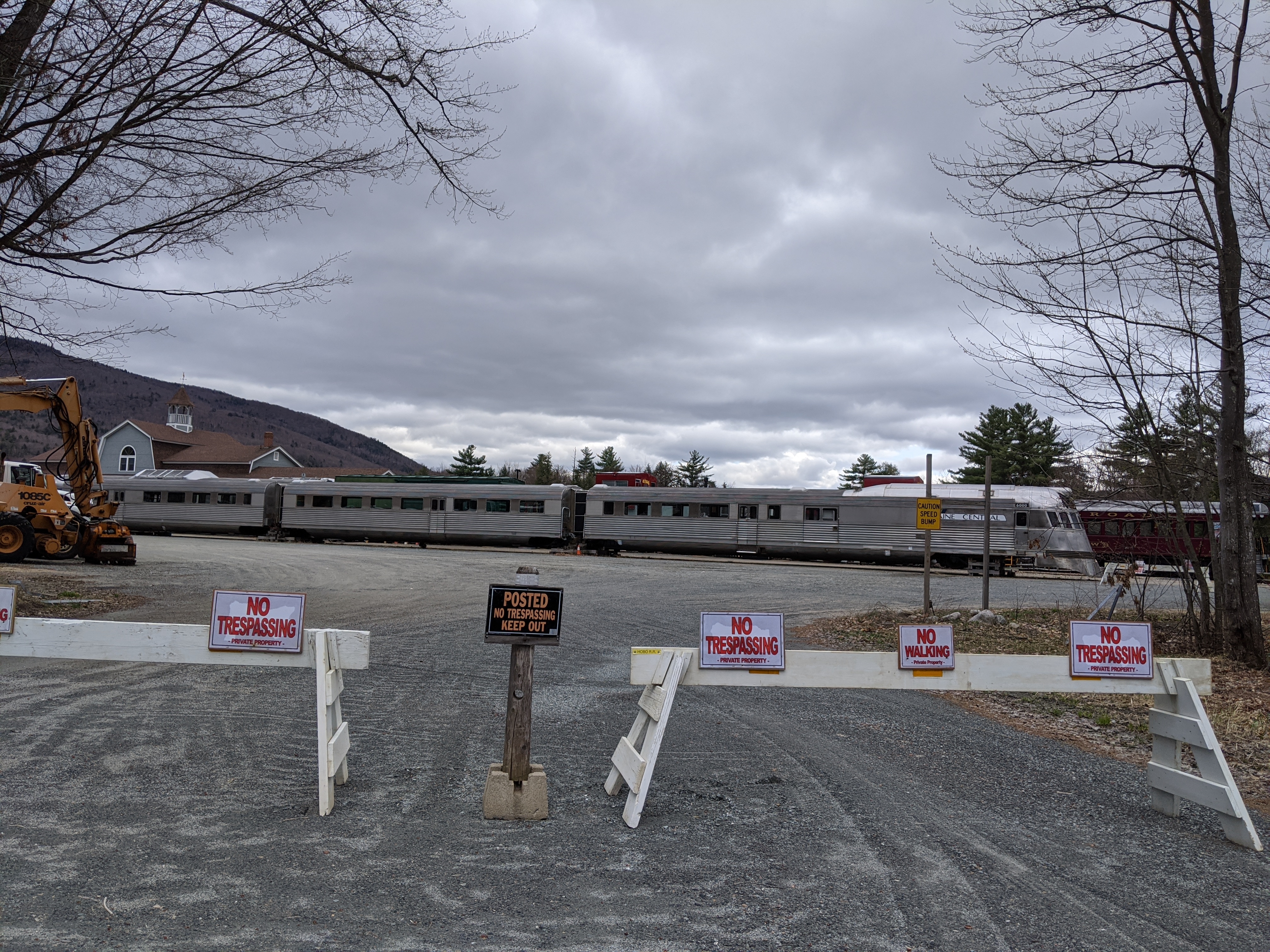 The Flying Yankee sitting off tracks at the Hobo Railroad, without its bogies